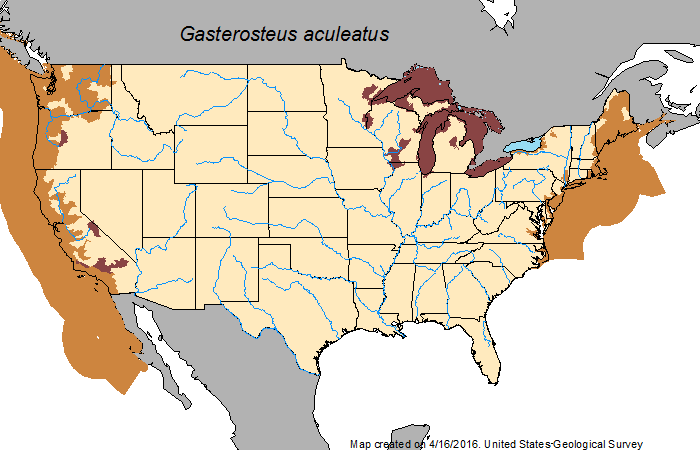 Distribution of Gasterosteus aculeatus (Three-spine stickleback) in North America, from USGS NAS web site